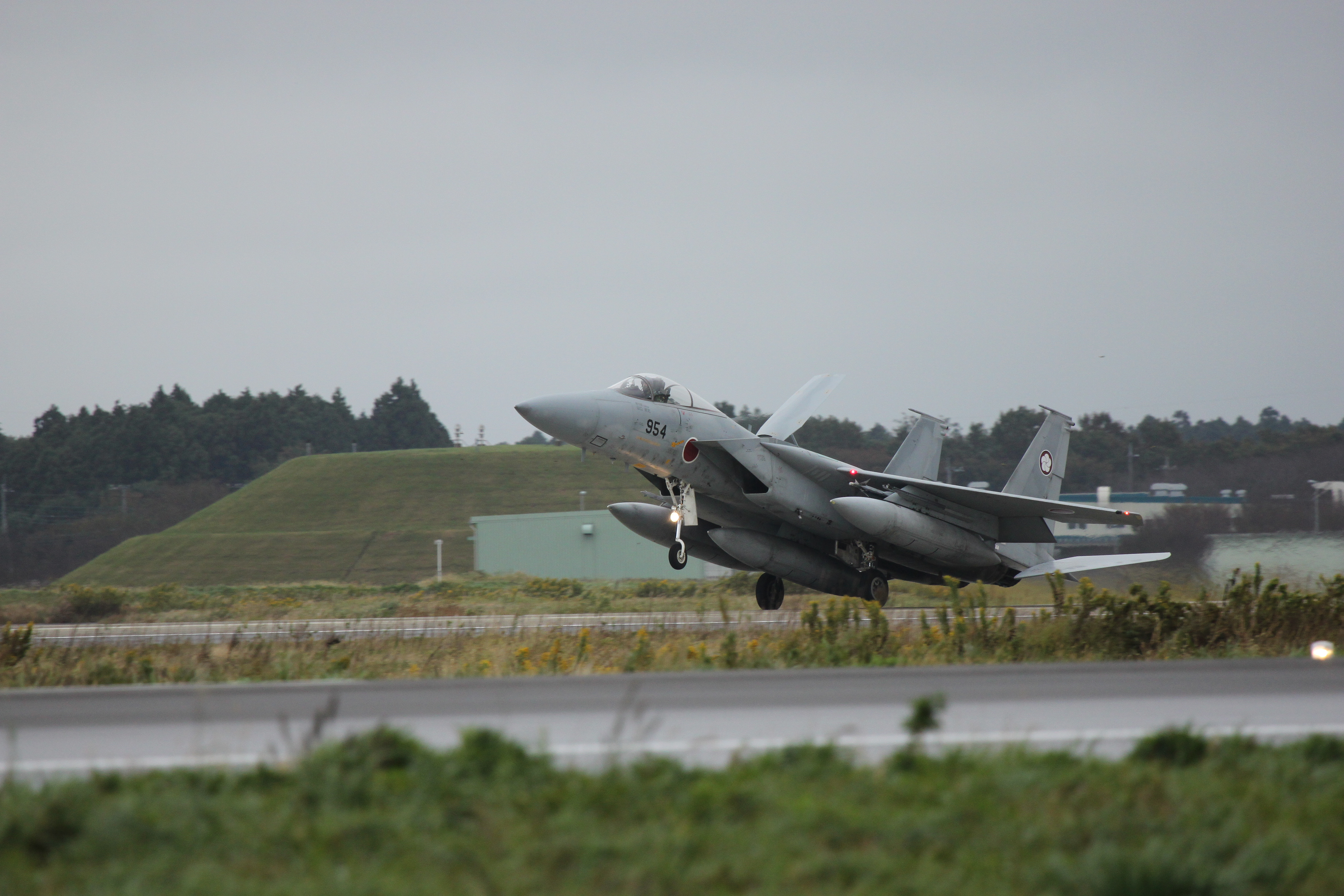 Mitsubishi F-15 in flight